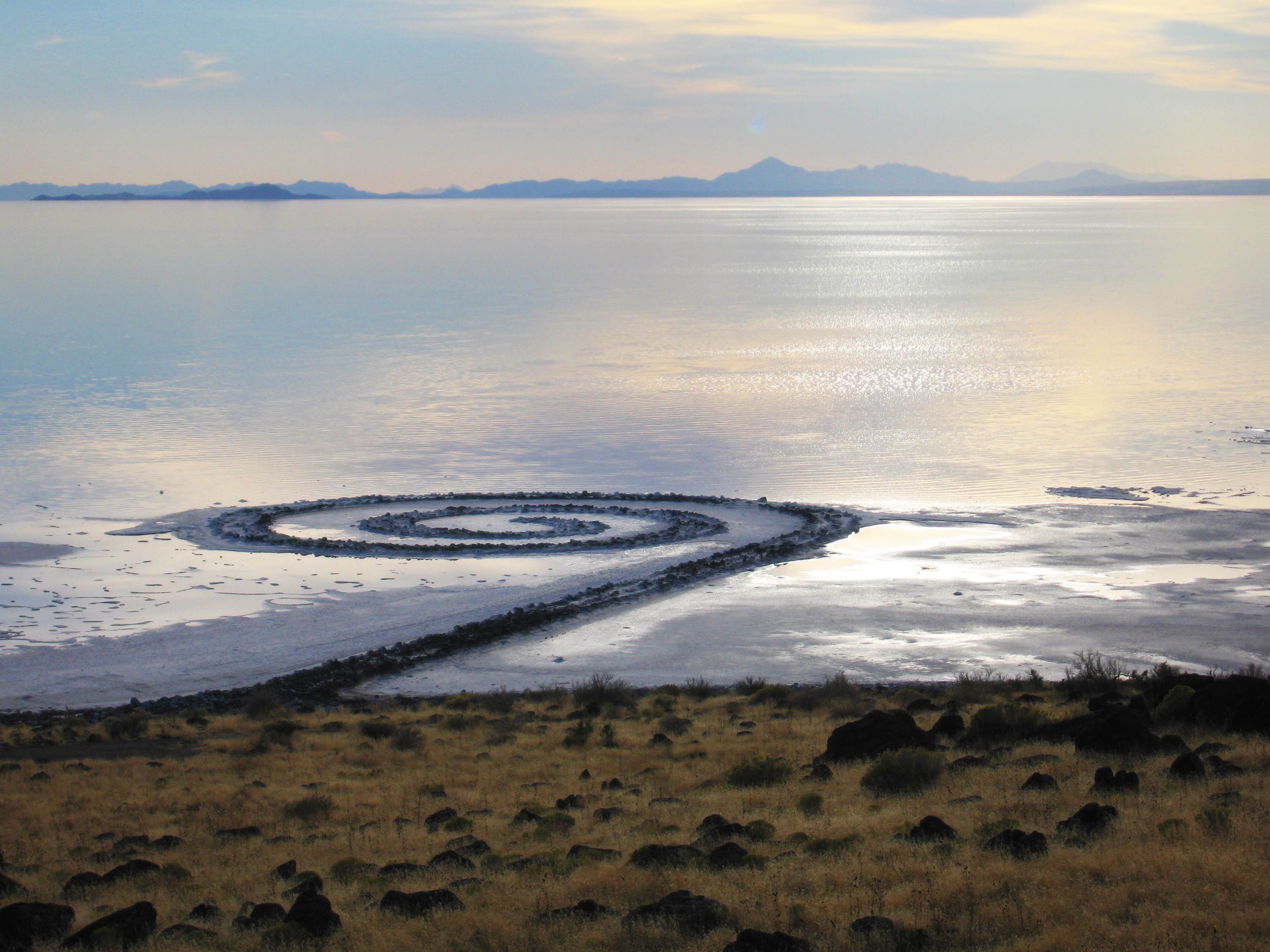 Photograph of Robert Smithson's earthwork, Spiral Jetty, located at Rozel Point, Utah on the shore of the Great Salt Lake